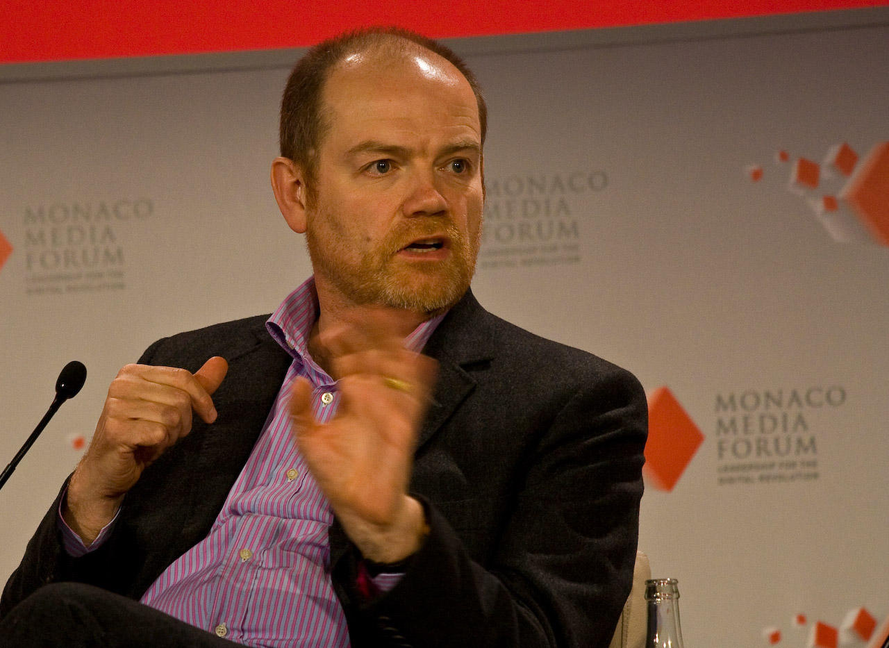 Mark Thompson, Director-General of the BBC.